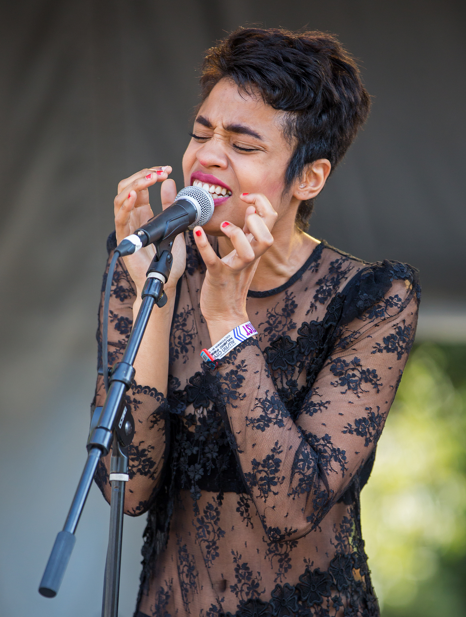 Adia Victoria performing at Austin City Limits Music Festival on October 11, 2015 in Austin, Texas.